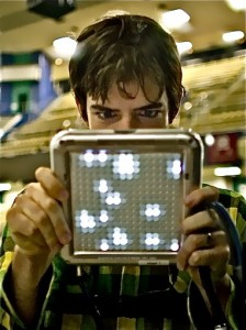 Damian Taylor